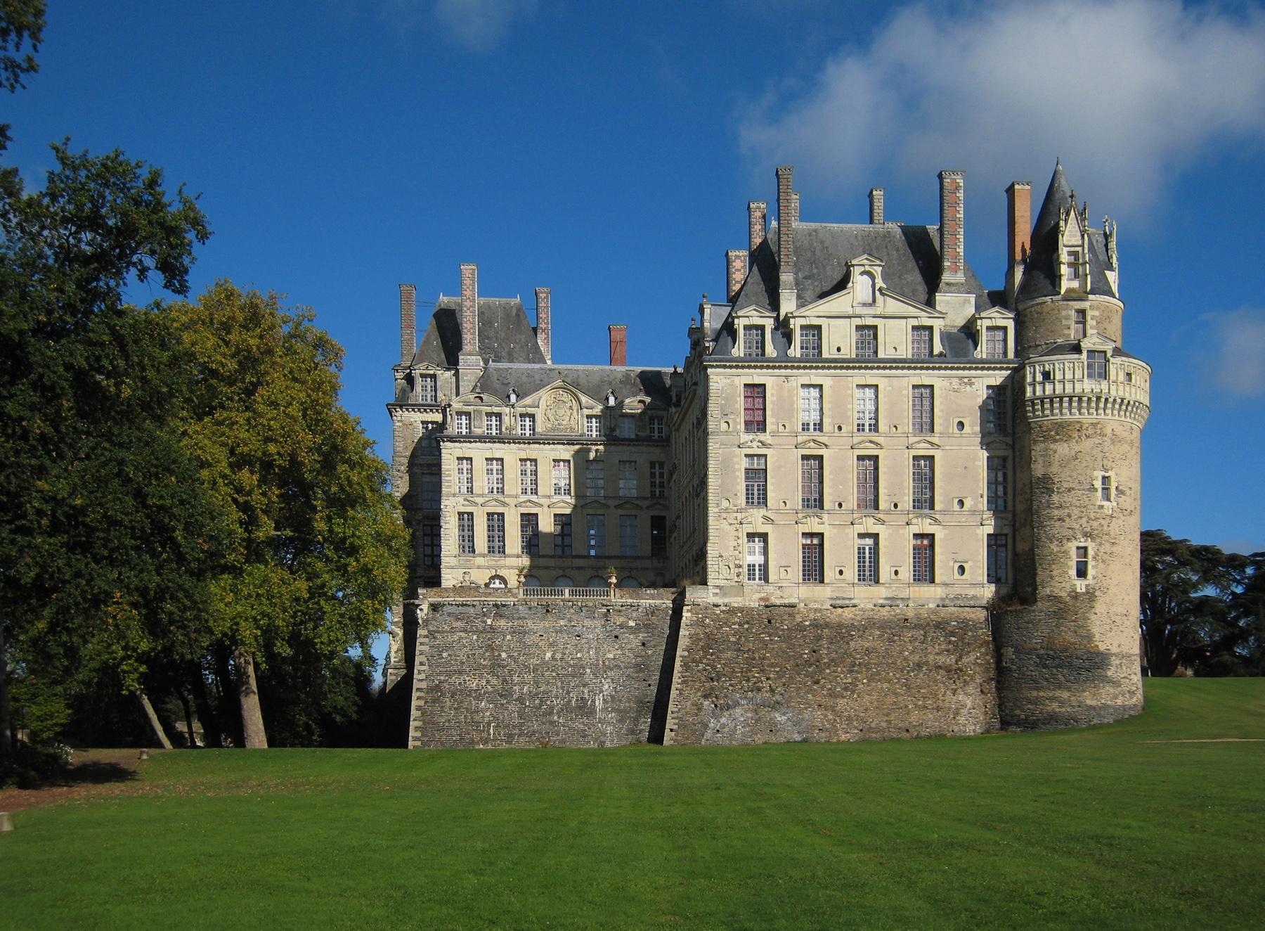 Castle Brissac, located in county of Maine-et-Loire/France, park aspect.